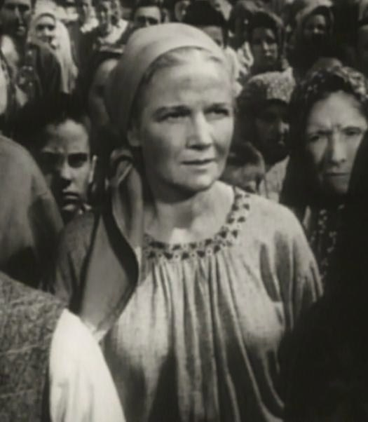 Ann Harding in The North Star - cropped screenshot